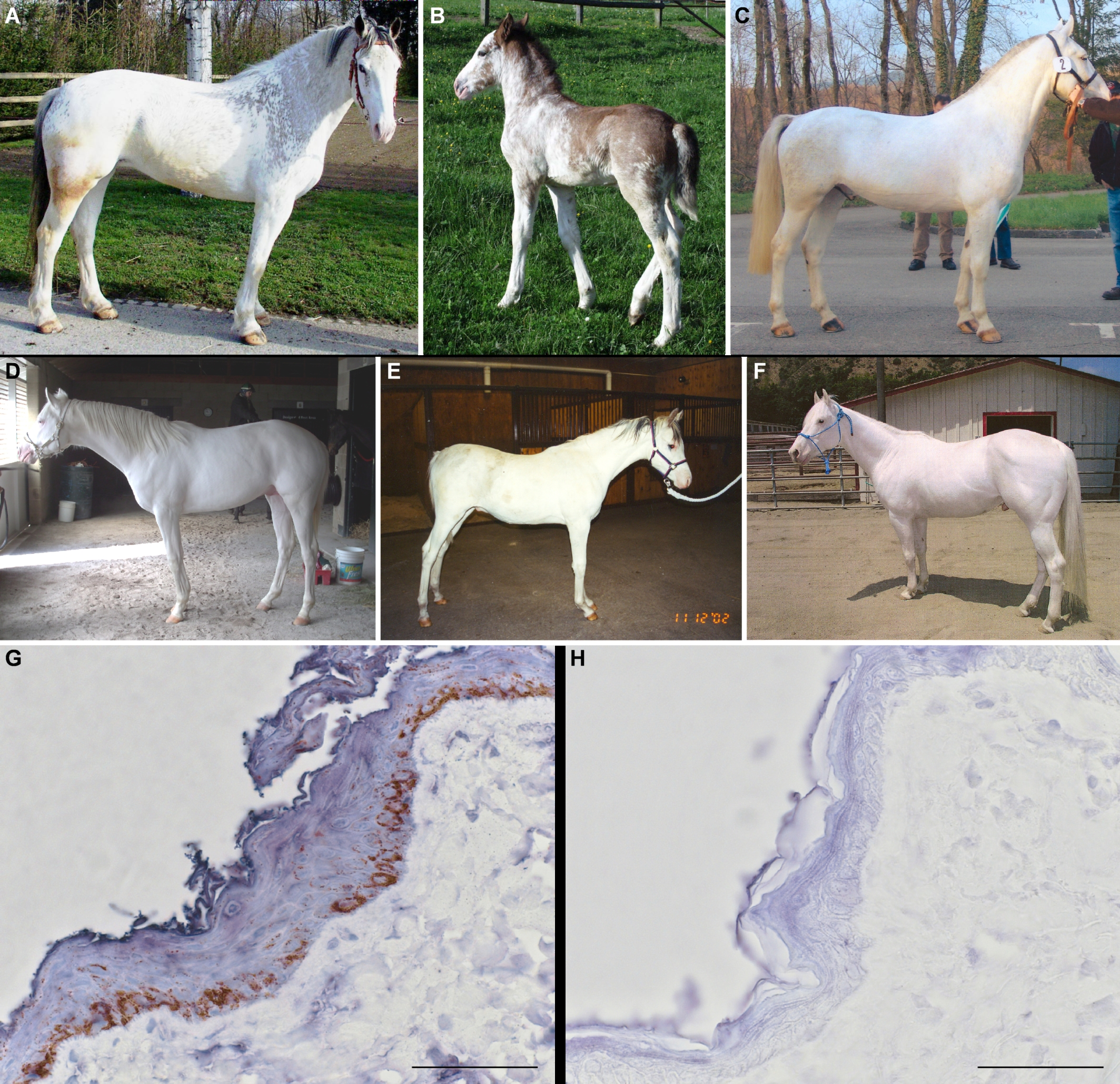 (A) Franches-Montagnes mare with little residual pigmentation. (B, C) Dominant white Franches-Montagnes stallion showing partial depigmentation as a colt and almost complete depigmentation at 4 years of age. (D) Dominant white Thoroughbred stallion. (E) Dominant white Arabian stallion. (F) Camarillo White Horse. (G) Immunohistochemistry using a polyclonal KIT antibody on a skin biopsy from a solid-colored horse. Blue staining indicates KIT expression throughout the epidermis. Melanin produced by melanocytes is visible as brown granules. (H) Immunohistochemistry on a skin biopsy of a white horse. Note the weak blue staining and the complete absence of melanocytes and melanin. The bars correspond to 50 μm.